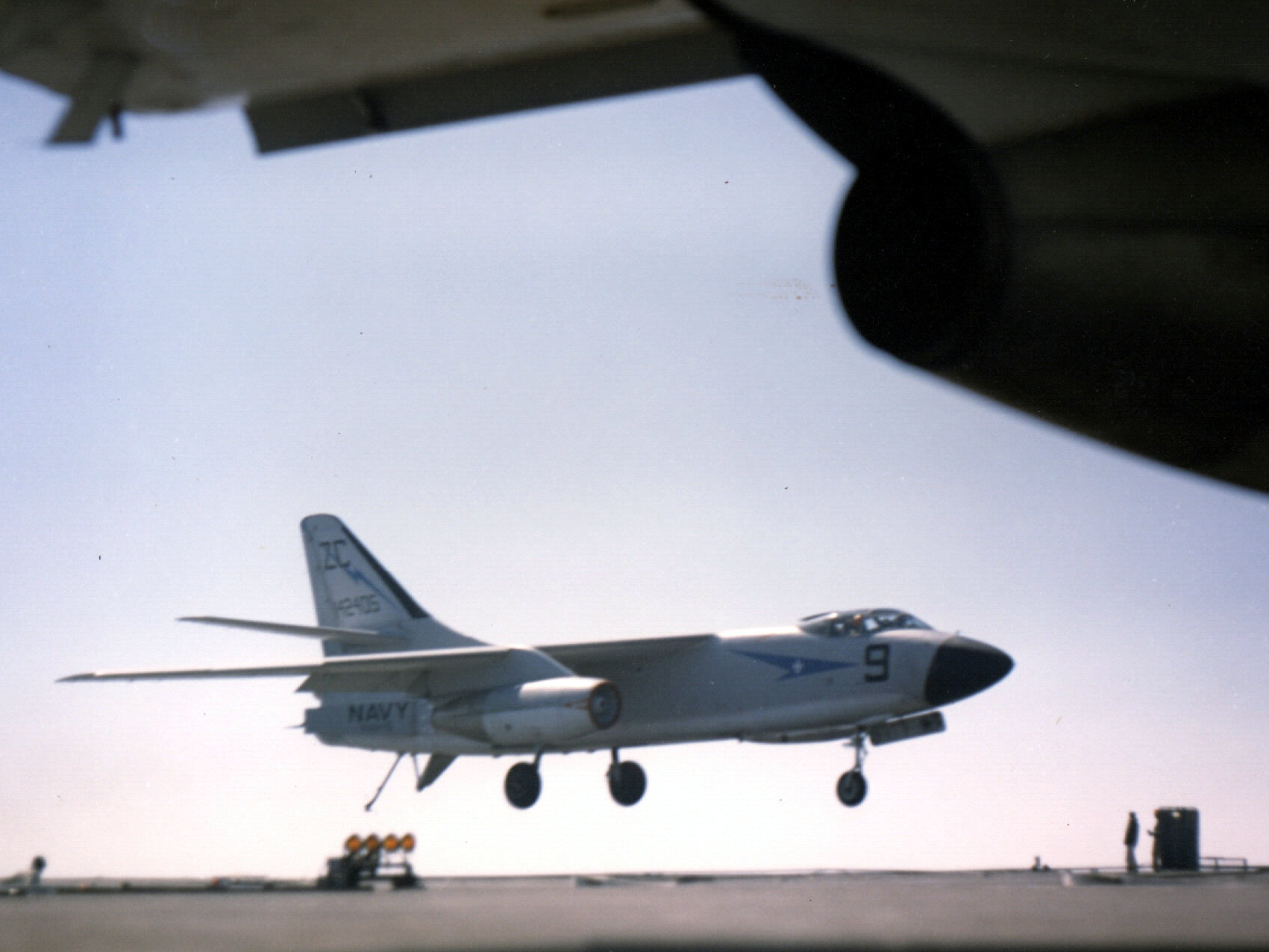 A U.S. Navy Douglas A3D-2 Skywarrior (BuNo 142405) of Heavy Attack Squadron VAH-6 "Fleurs" landing aboard an aircraft carrier, in 1957-59. VAH-6 provided detachments for carriers of the Pacific Fleet. due to the width of the deck, this photo may have been taken aboard USS Ranger (CVA-61). VAH-6 was assigned to Carrier Air Group 14 (CVG-14) aboard the Ranger from May 1958 to July 1959, using its squadron tail code "ZC". 142405 was later scrapped after an accident in August 1964 while in service with with VAH-8.